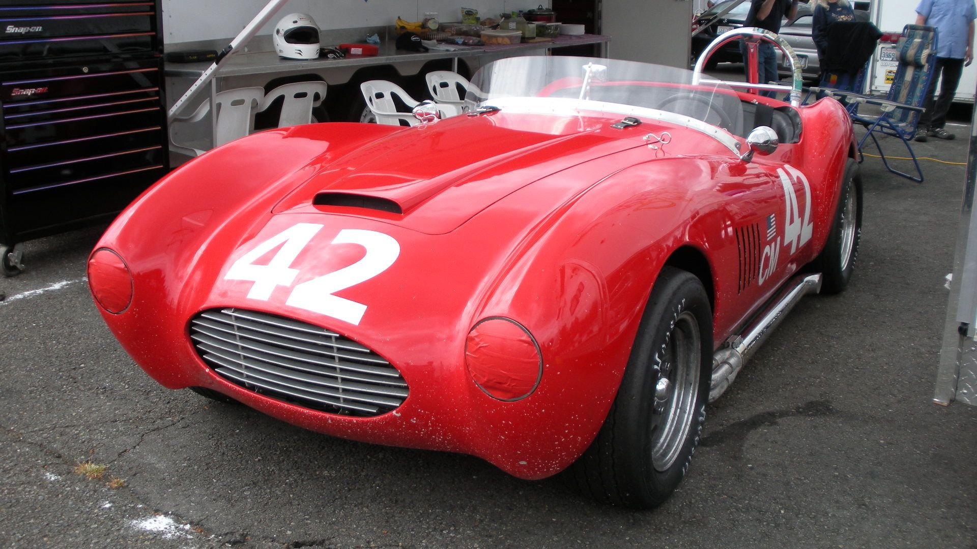 This photo was taken July 3, 2011 at Pacific Northwest Historics Vintage Car Race, which benefits Seattle Children's Hospital.